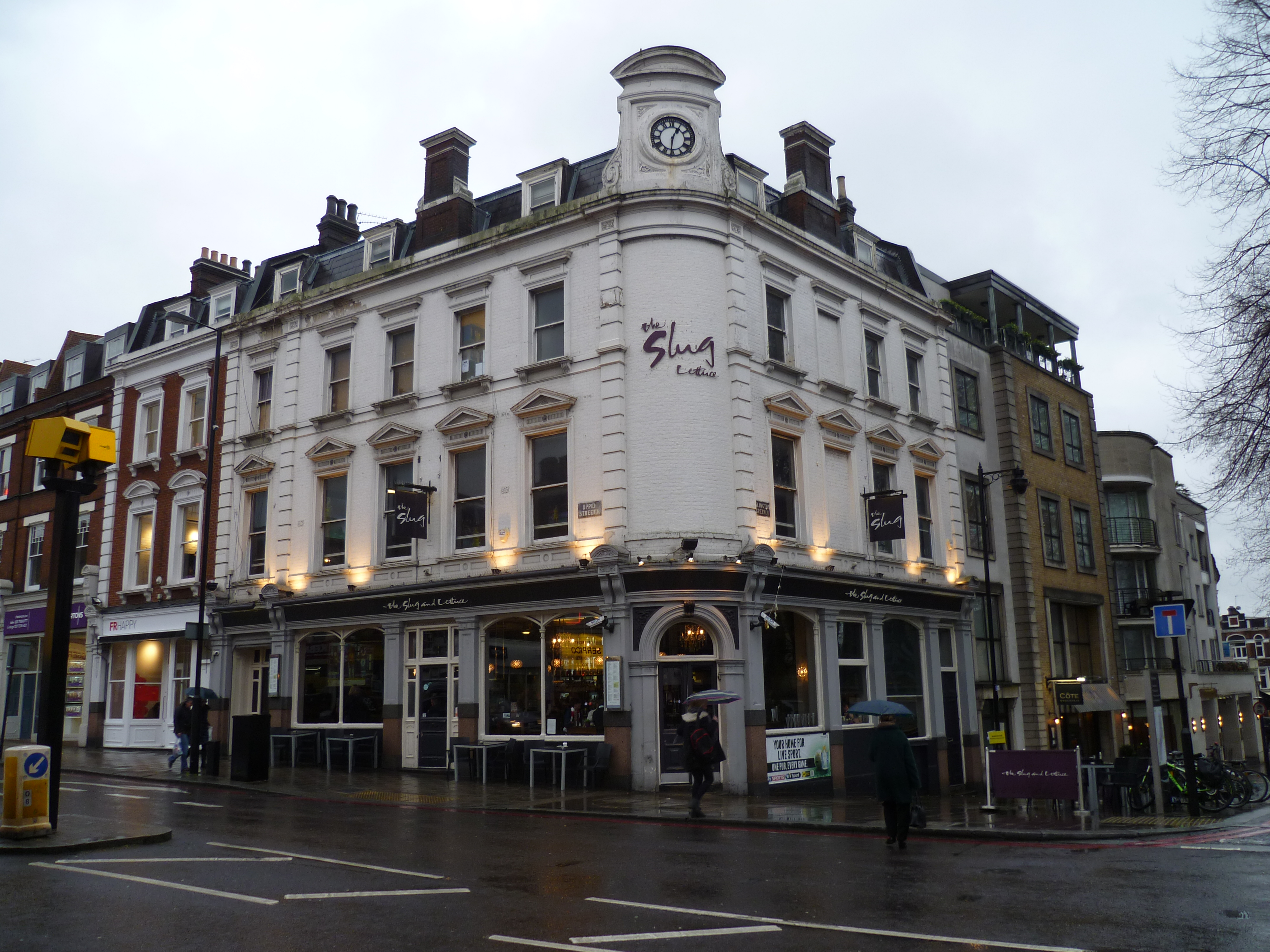 Islington